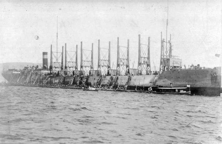 The Nereus (Collier No. 10) loading coal at Nagasaki, Japan in April 1916. Taken from NavSource Online: Service Ship Photo Archive "Collier No. 10 / AC-10 Nereus"